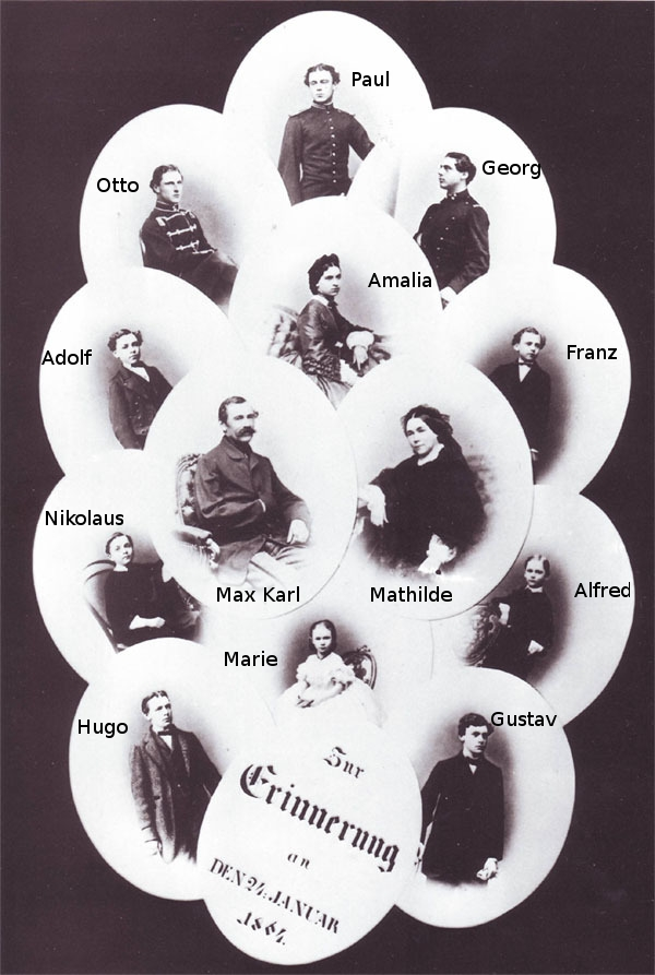 The picture shows Maximilian Karl, 6th Prince of Thurn and Taxis and his second wife Princess Mathilde Sophie of Oettingen-Oettingen and Oettingen-Spielberg (center), together with their children. The picture was taken at the occasion of the 25th wedding anniversary on January 24, 1864, in Regensburg, Kingdom of Bavaria.